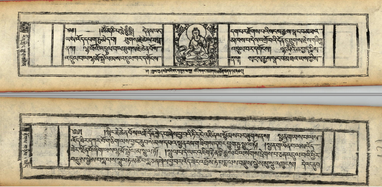 सम्भोट लिपिमा लिखित बौद्ध ग्रन्थ